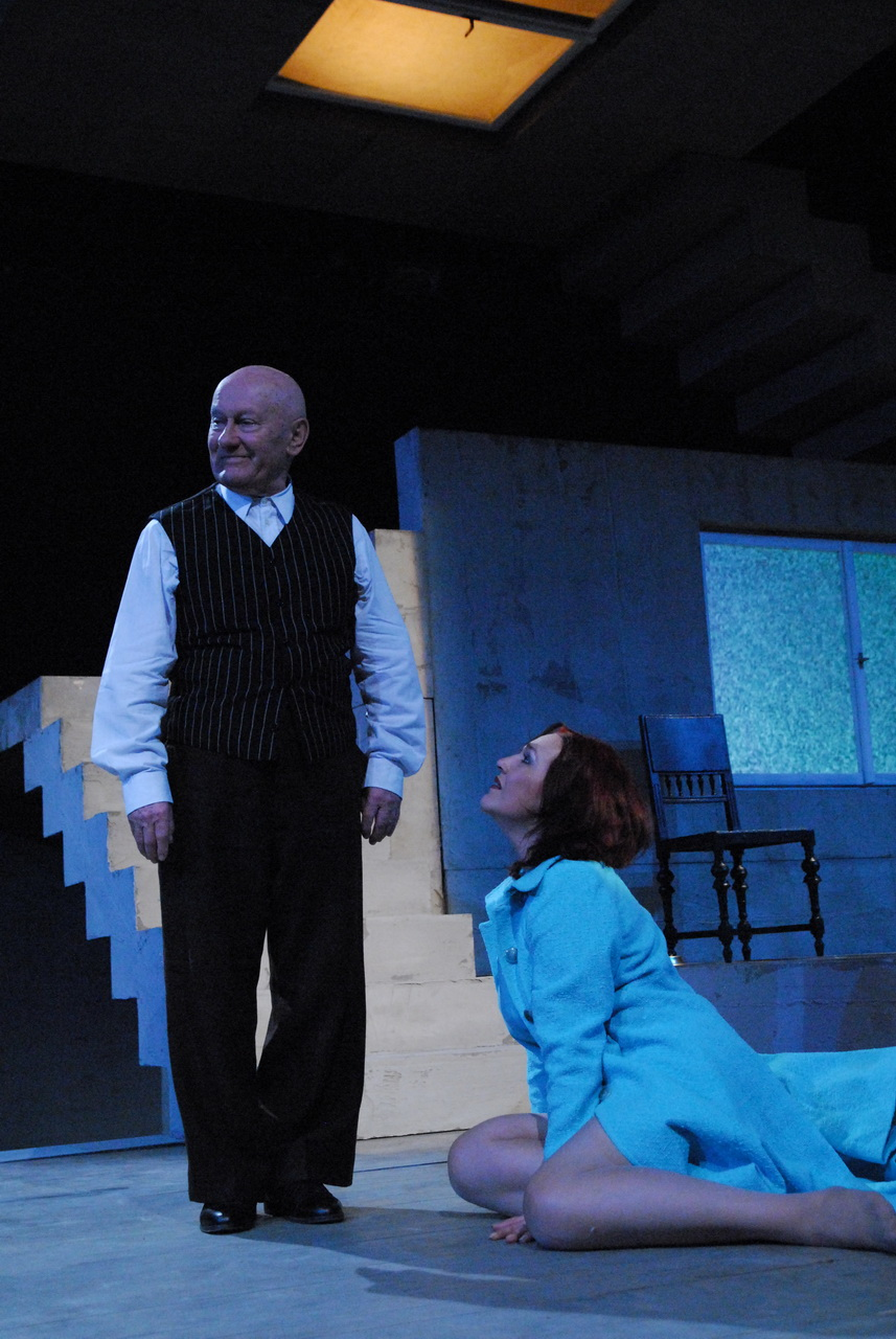 "The Misunderstanding", a play written by Albert Camus; directed by Radoslav Milenković; Drama of SNT, Novi Sad, 2007/08; actors: Rade Kojadinović, Lidija Stevanović Srpski (latinica): "Nesporazum", Albera Kamija u režiji Radoslava Milenkovića; Drama SNP-a, Novi Sad, 2007/08; glumci: Rade Kojadinović, Lidija Stevanović Српски (ћирилица): "Неспоразум", Албера Камија у режији Радослава Миленковића; Драма СНП-а, Нови Сад, 2007/08; глумци: Раде Којадиновић, Лидија Стевановић